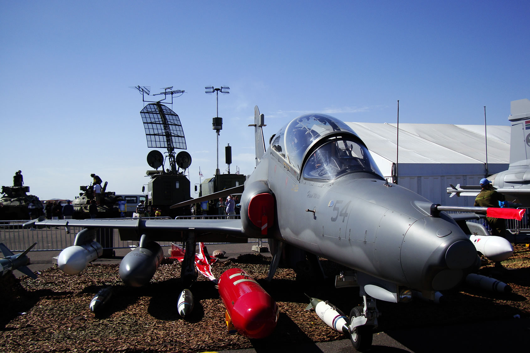 A Hawk 120 LIFT of the South African Air Force at the Ysterplaat Air Force Base 2010.